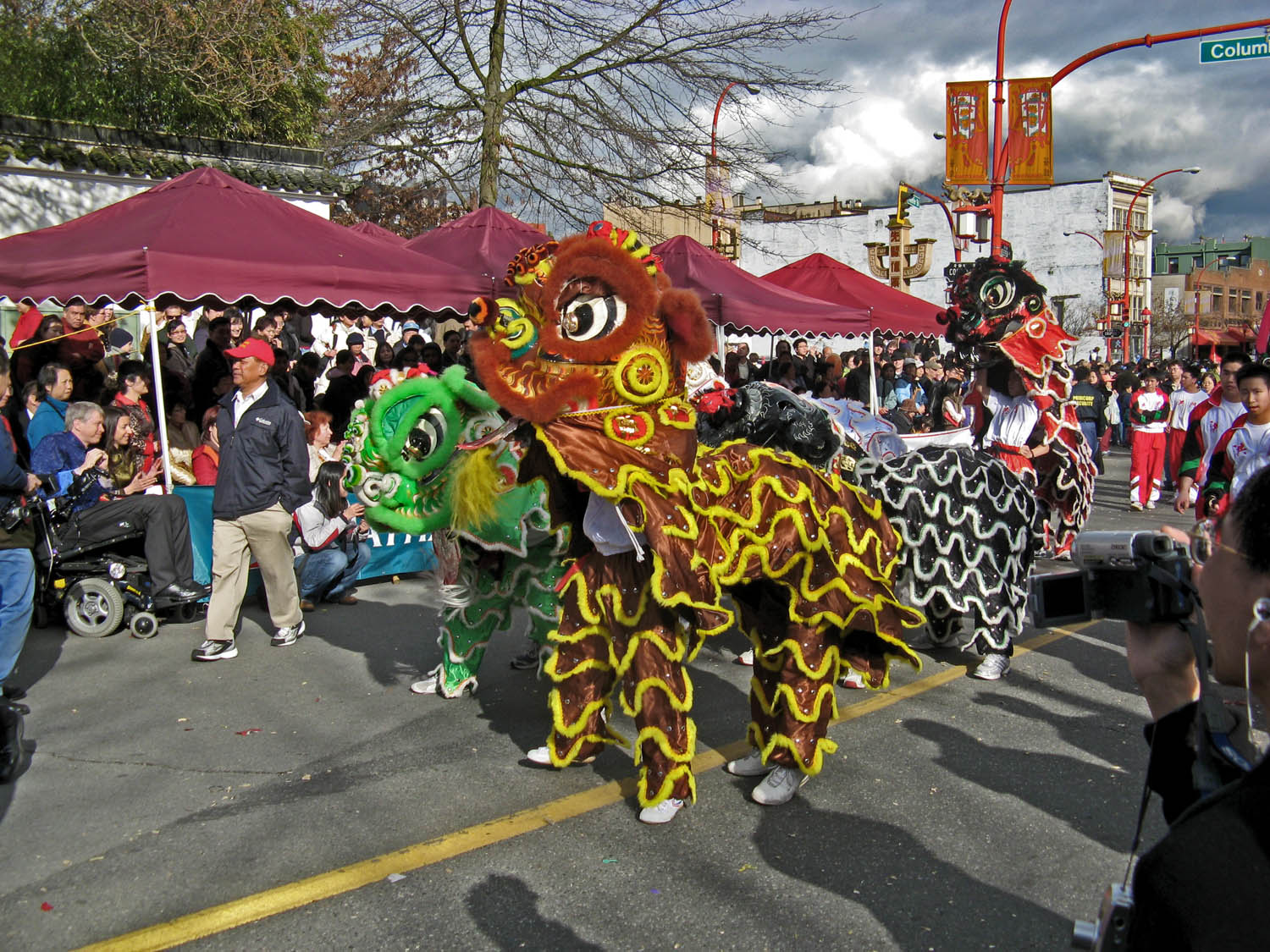 Chinese New Year parade, Vancouver, BC, 2007 The Chinese Freemasons Athletic Club